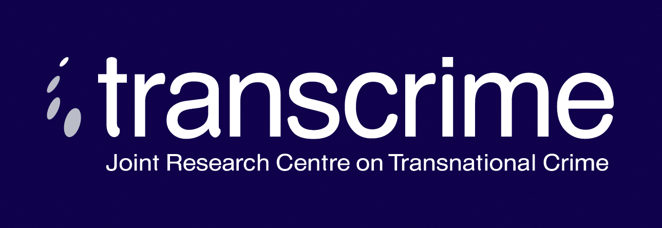 Transcrime logo